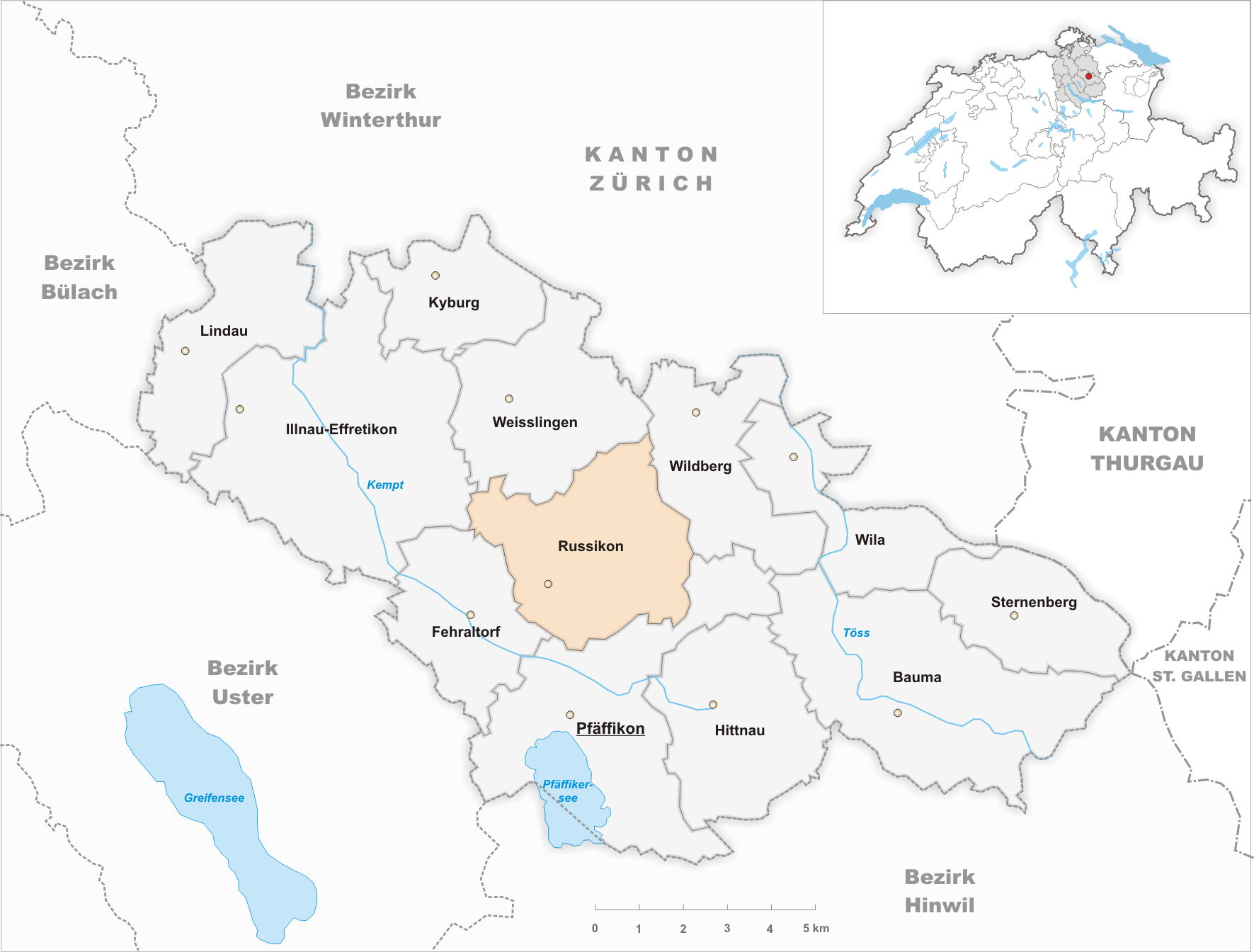 Municipality Russikon